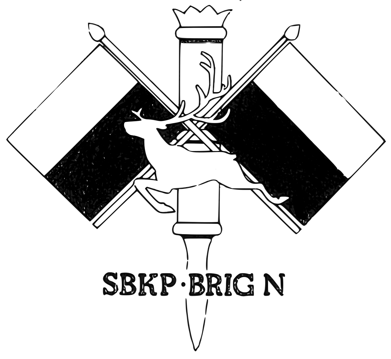 Old army badge of the Norwegian Signal Company. Today this company is continued as Signal Battalion in the Norwegian Army